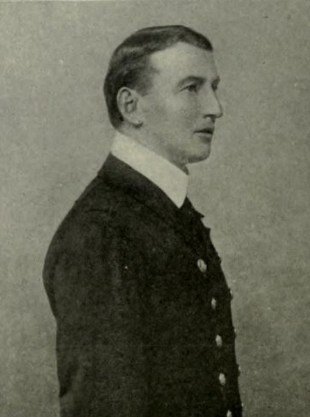 Portrait of Captain Murray Sueter RN, in the Times History of the War, Vol II, 1915